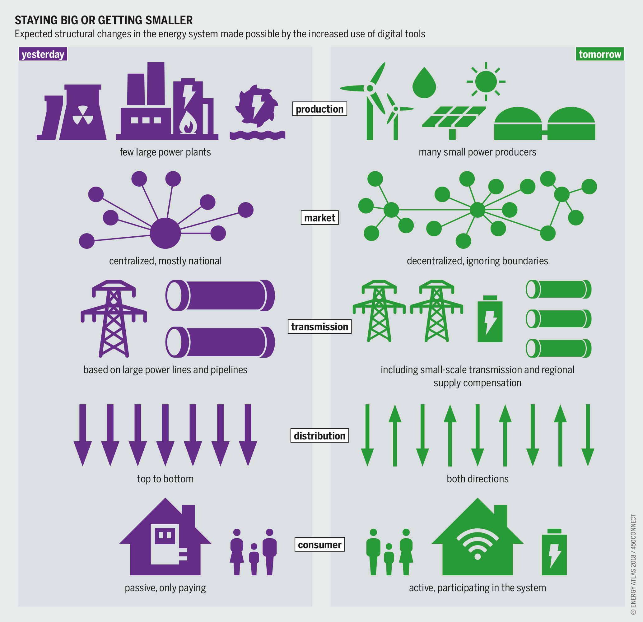 Staying big or getting smaller